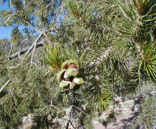 Mexican Pinyon at Big Bend National Park, Texas